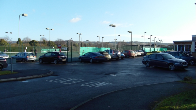 East Gloucestershire Lawn Tennis Club These are the all-weather courts. The club also have squash and hockey sections.